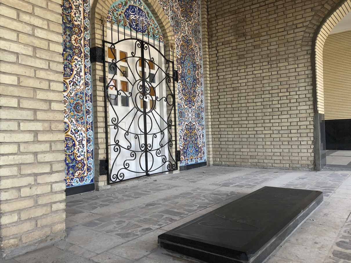 Simin Behbahani Tomb in Behesht-e Zahra Cemetery